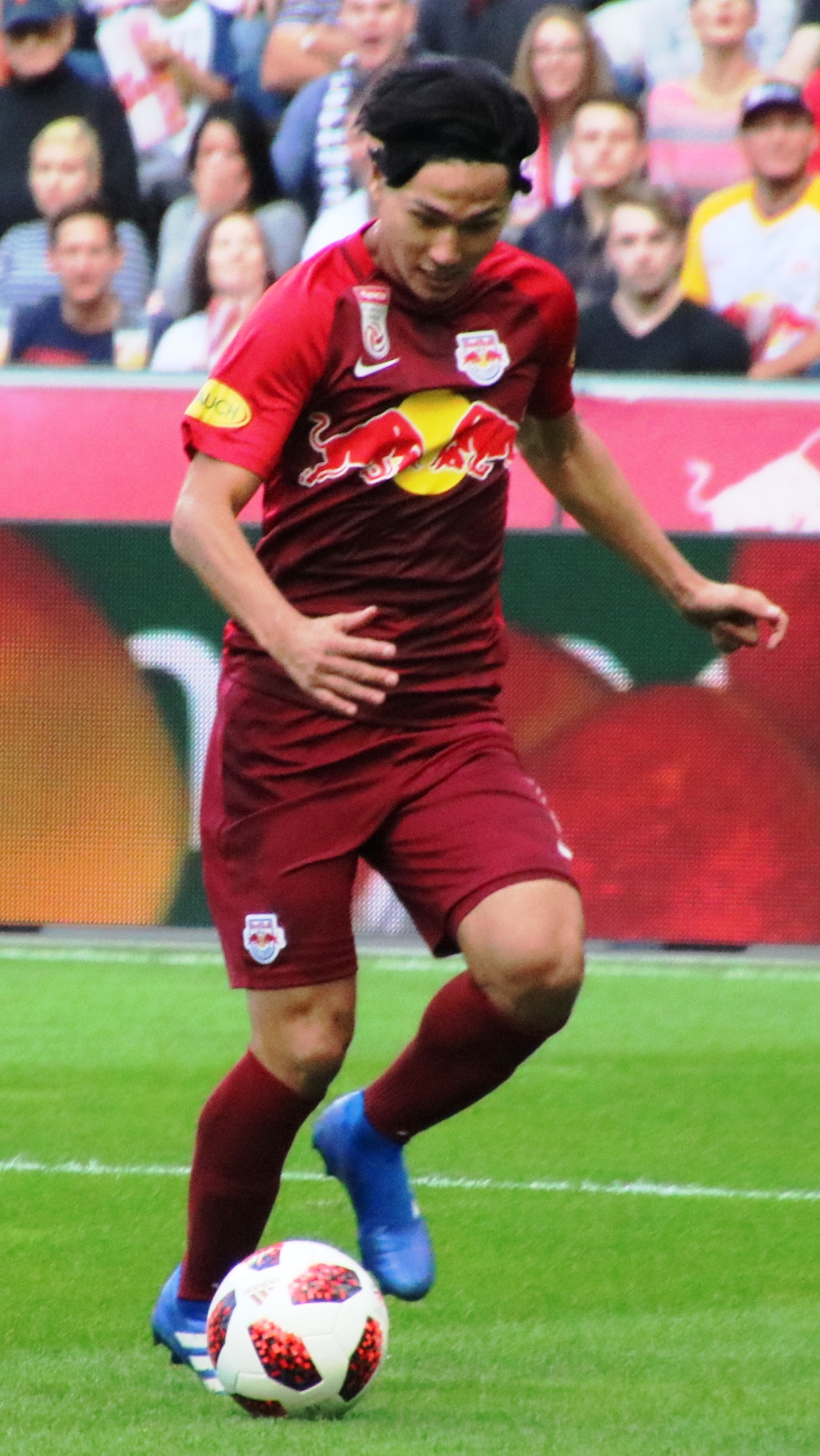 Austrian Bundesliga league match 8th round